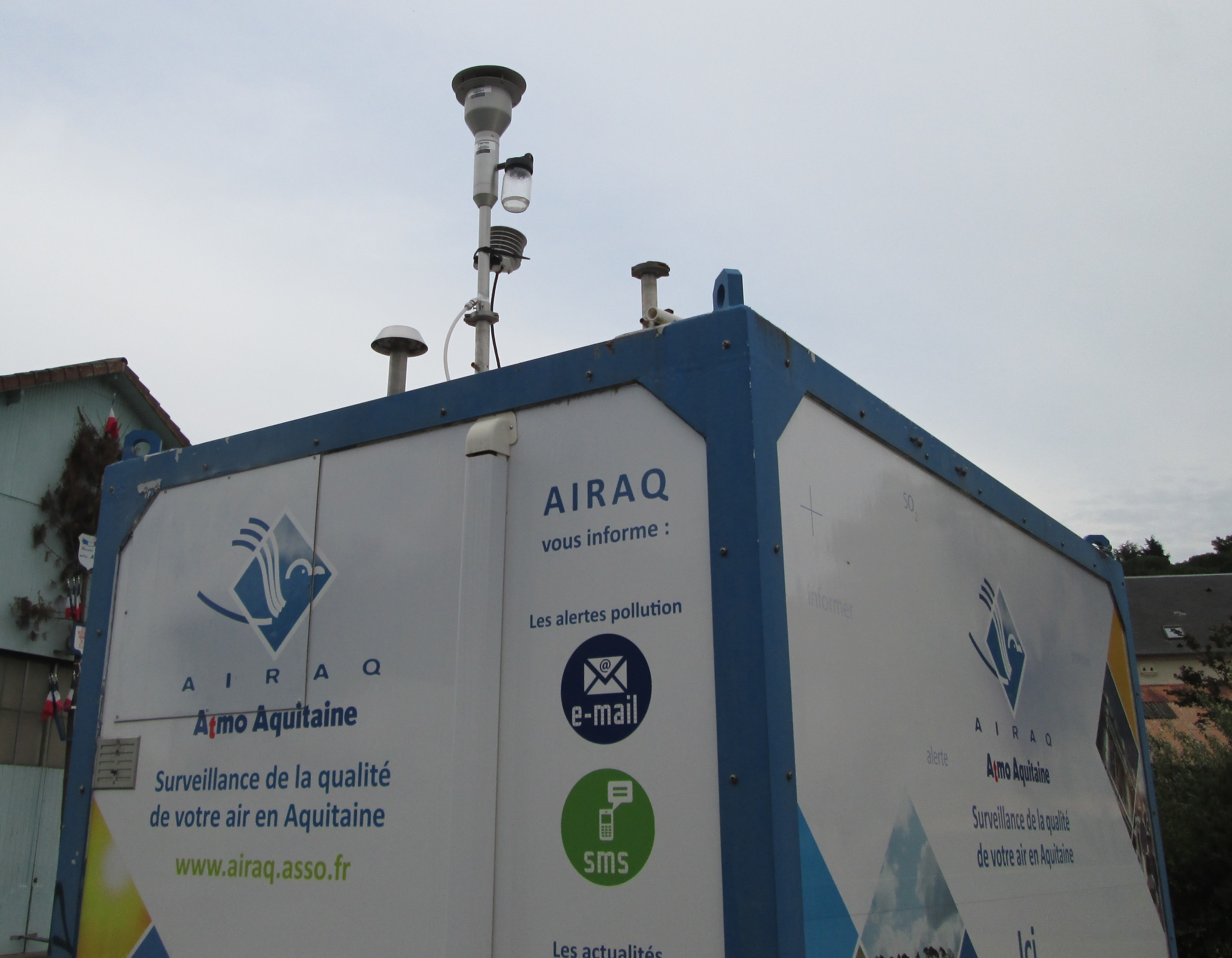 Sampling head of an air quality monitoring station (lab) in Aquitaine by Airaq association, France. The station remained at least 5 days at this location (great uncrowded area).